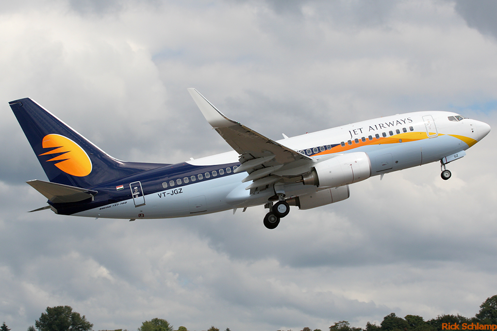 Delivery flight to Gander 737-700 Boeing Field - Seattle, WA August 9, 2007